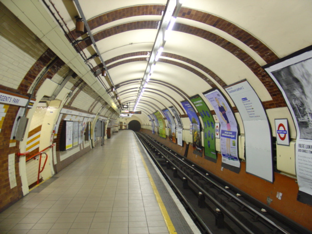 Regent's Park Station, London. In a city always full of people, the emptiness. I think it was the only time i saw an underground station like that.